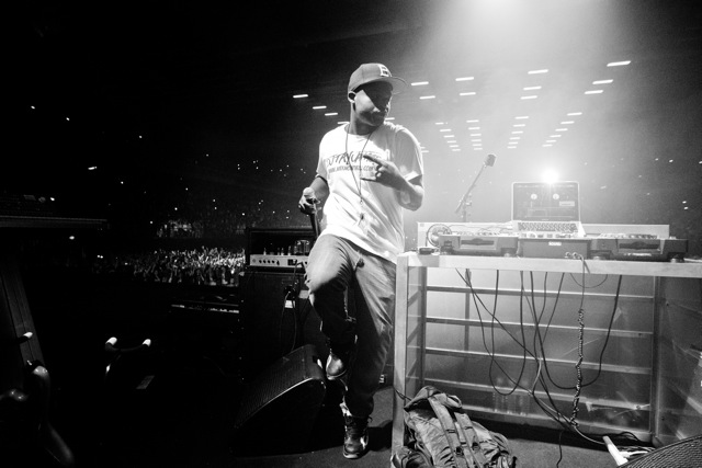 DJ Tay James performing in Denmark, taken and released into creative commons by Mike Lerner